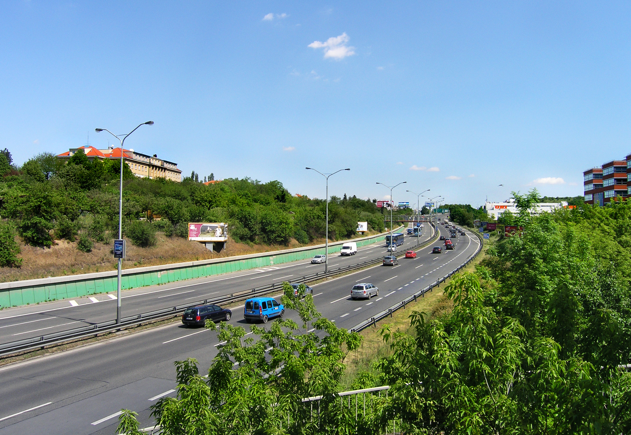 Chodov Highway at Chodov, Prague